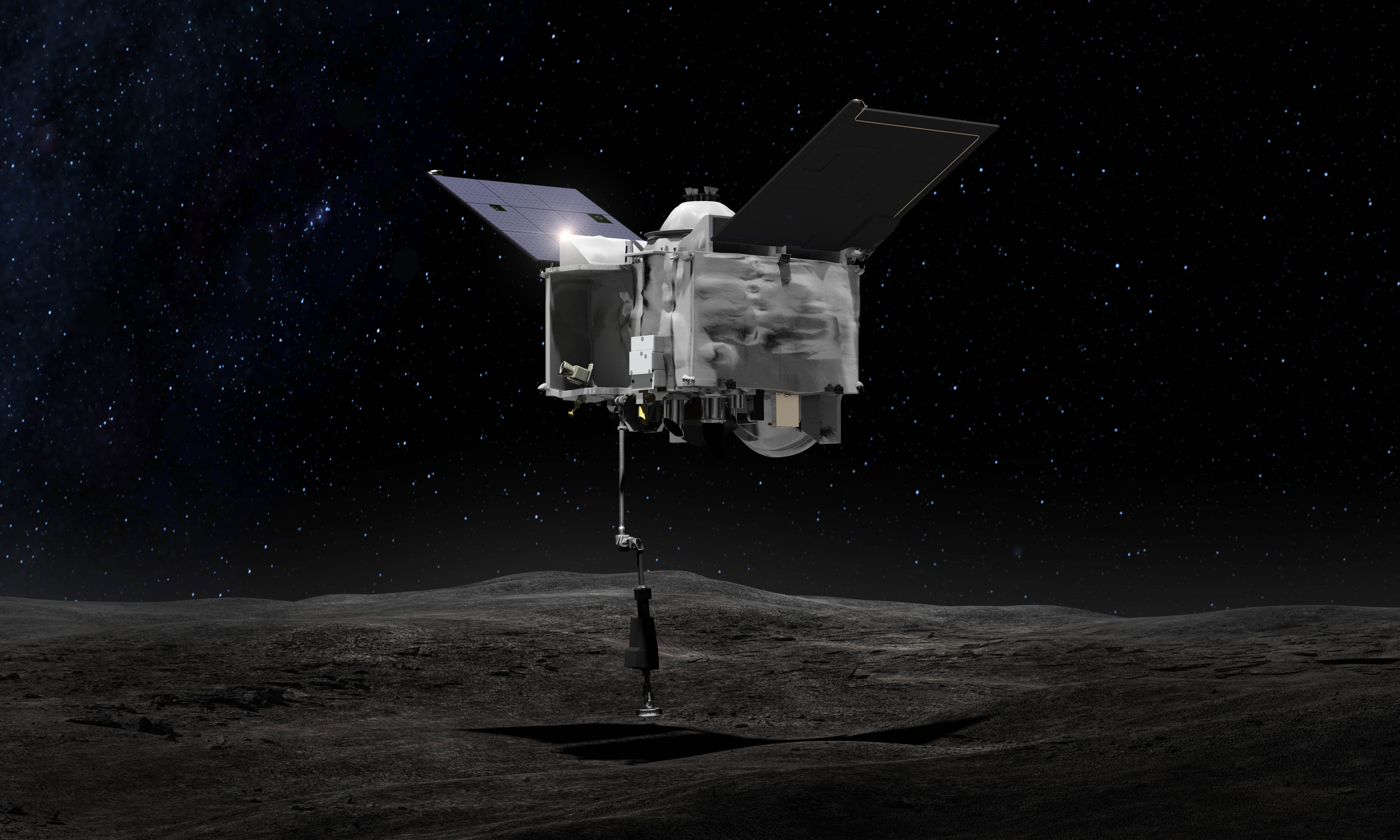 This artist's concept shows the Origins Spectral Interpretation Resource Identification Security - Regolith Explorer (OSIRIS-REx) spacecraft contacting the asteroid Bennu with the Touch-And-Go Sample Arm Mechanism or TAGSAM. The mission aims to return a sample of Bennu's surface coating to Earth for study as well as return detailed information about the asteroid and it's trajectory.